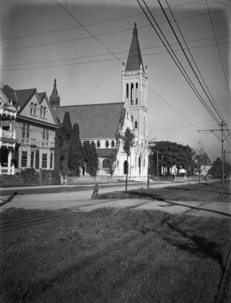 New Orleans: Christ Church Episcopal Cathedral, St. Charles Avenue. Shows the original steeple which was destroyed in the Great Hurricane of 1915.